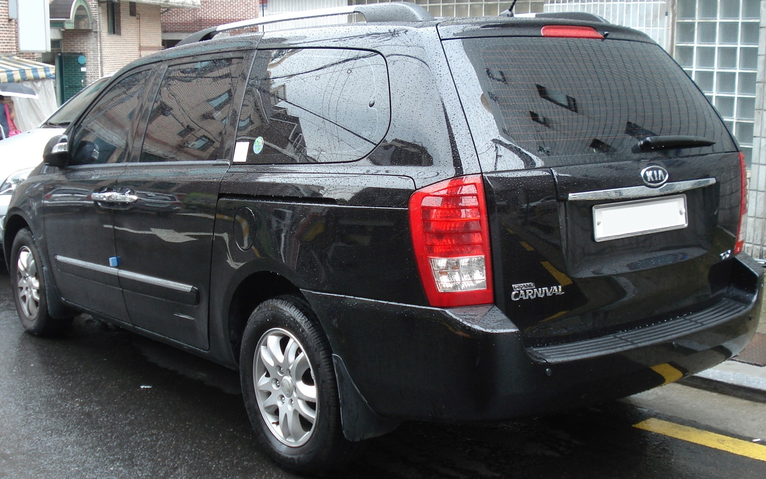 Kia Grand Carnival